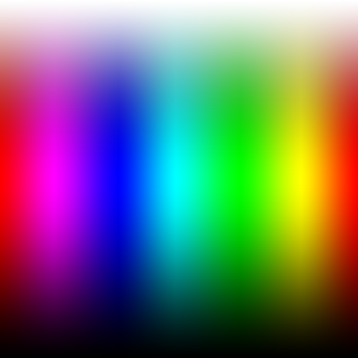 Square of HL in HSL color system